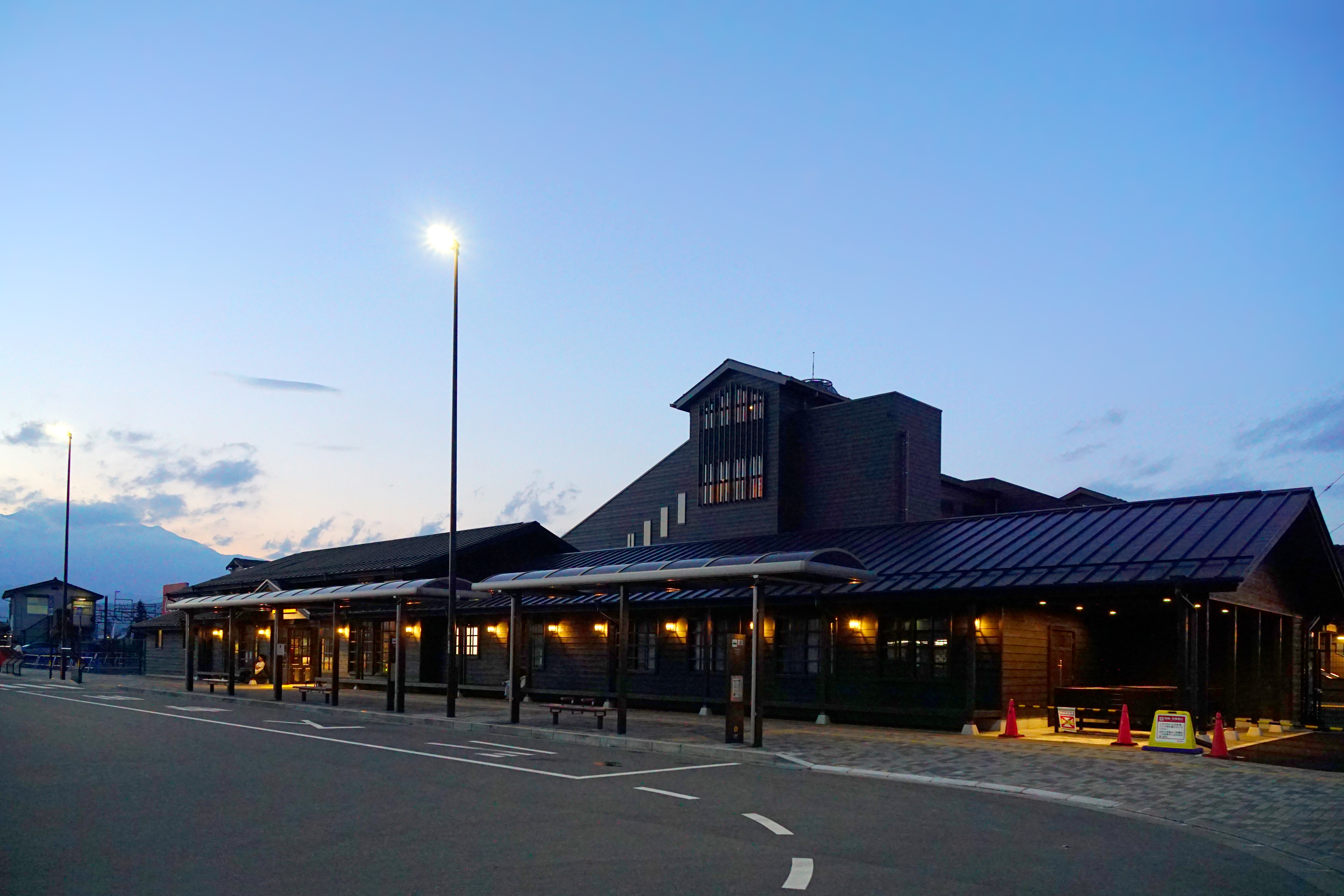 Shimo-Imaichi Station in Nikko, Tochigi prefecture, Japan